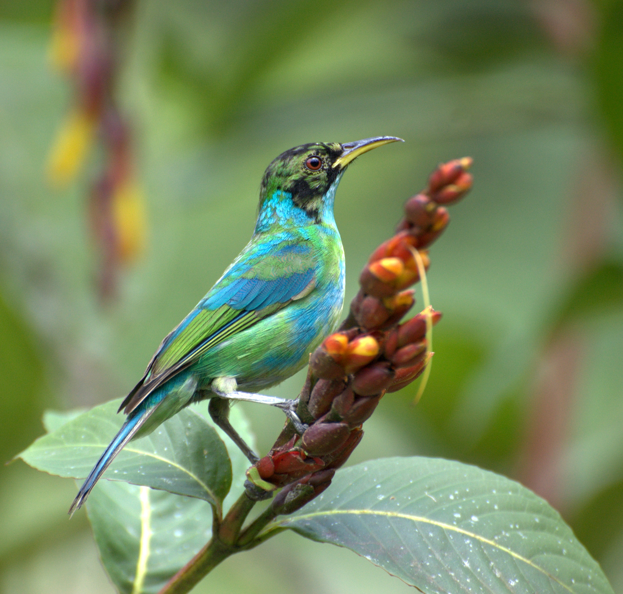 A juvenile male green Honeycreeper (Chlorophanes spiza)